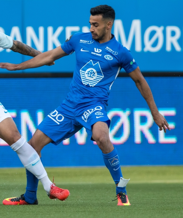 30.08.2018. Норвегия, Мольде, «Мольде». Лига Европы УЕФА 2018/19, раунд плей-офф, «Мольде» — «Зенит».